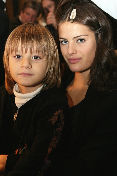 Isabeli Fontana and Lauren Hill's son with Rohan Marley, Zion, Backstage at Tommy Hilfiger fashion show